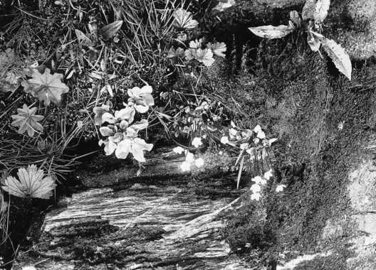 Flowers photogr. by Robert Collett